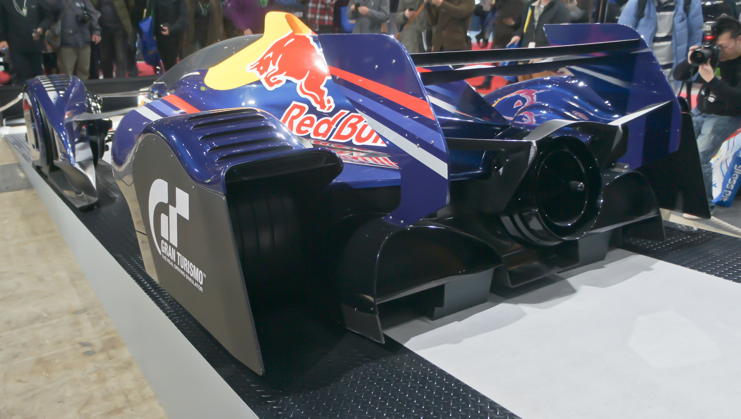 Tokyo Auto Salon 2012: Red Bull X2010